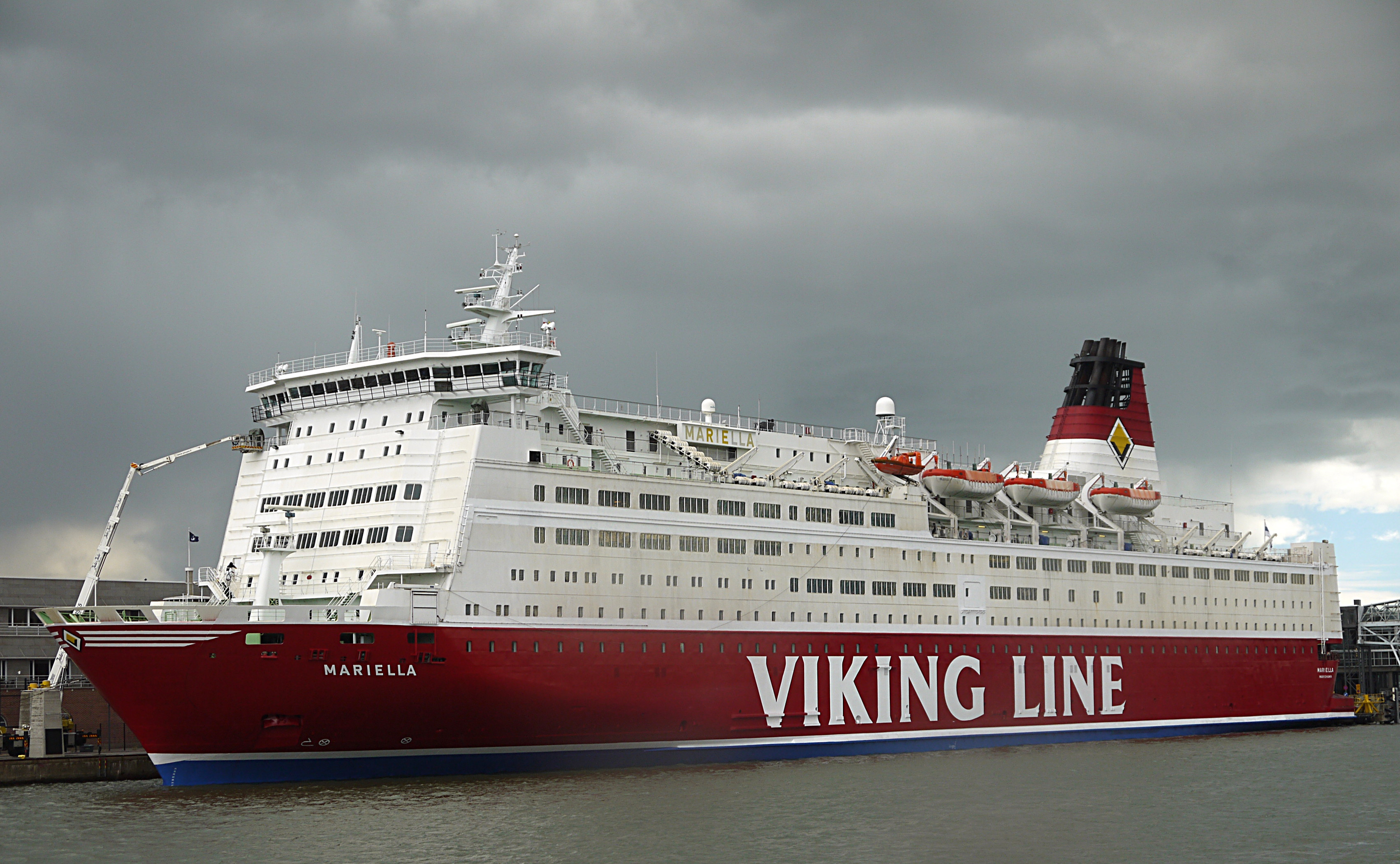 Finnish cruiseferry Mariella.